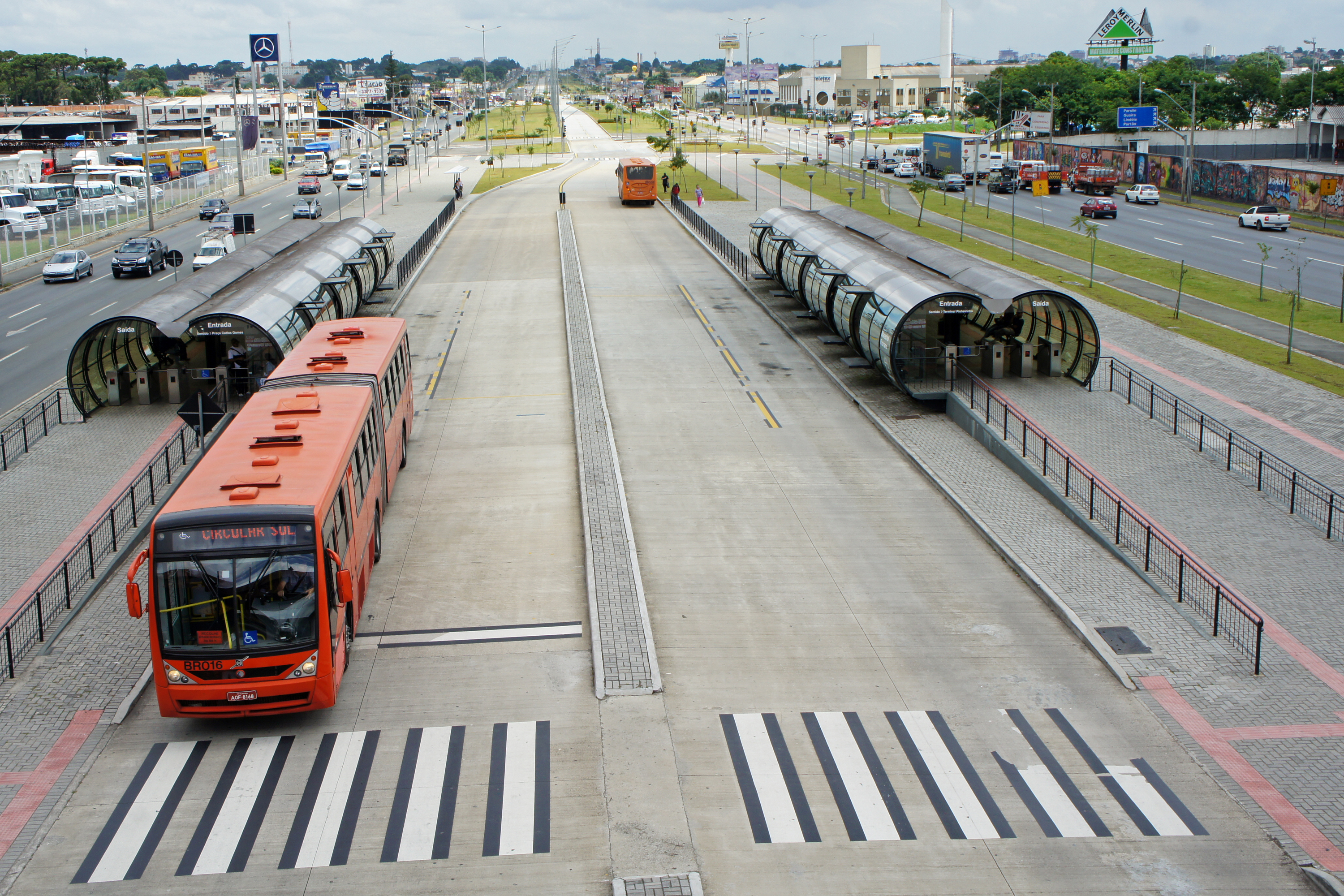 Marechal Floriano BRT station, Linha Verde (Green Line), Curitiba RIT, Brazil